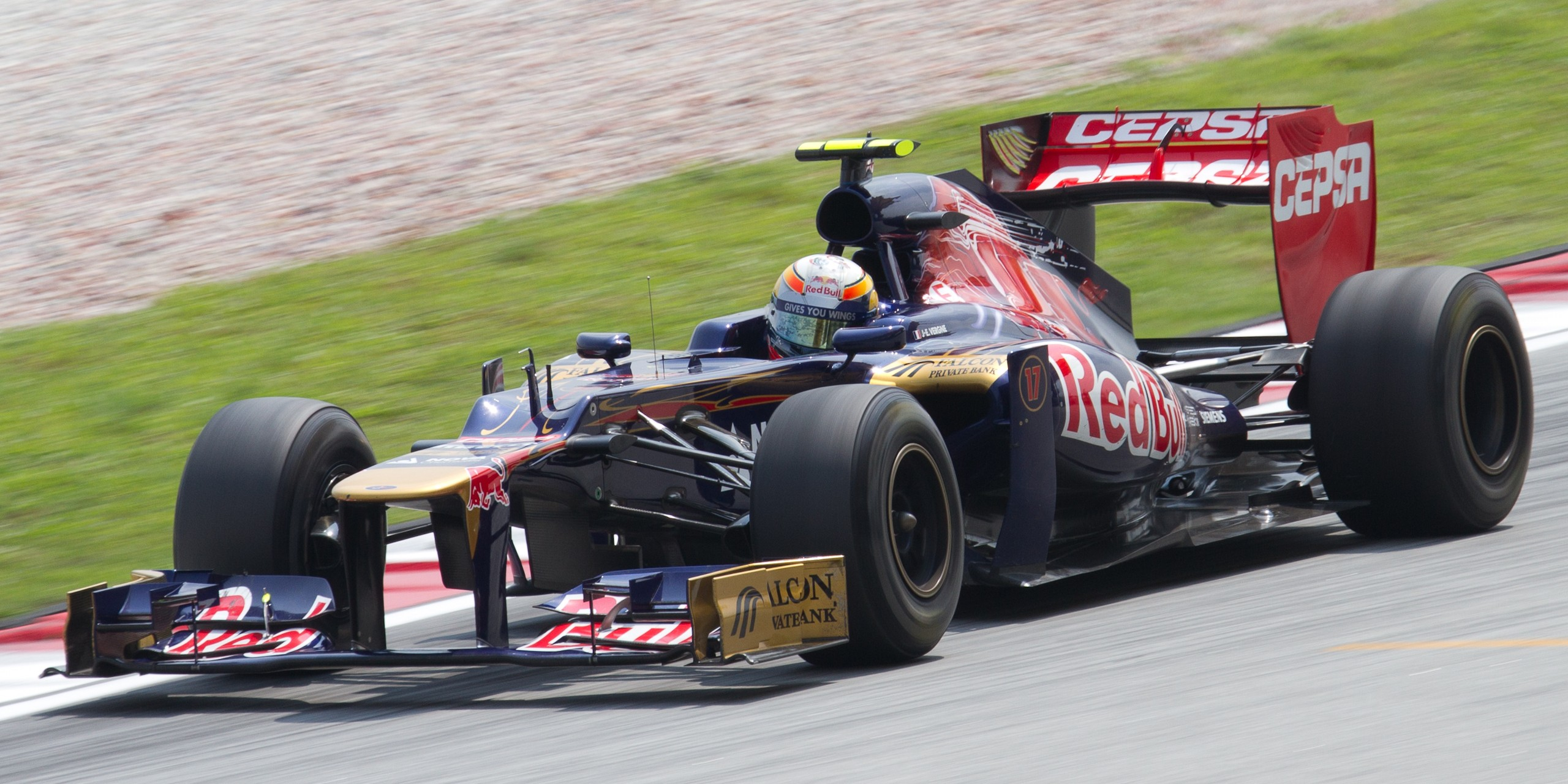 Formula One 2012 Rd.2 Malaysian GP: Jean-Éric Vergne (Toro Rosso) during the first practice session on Friday.